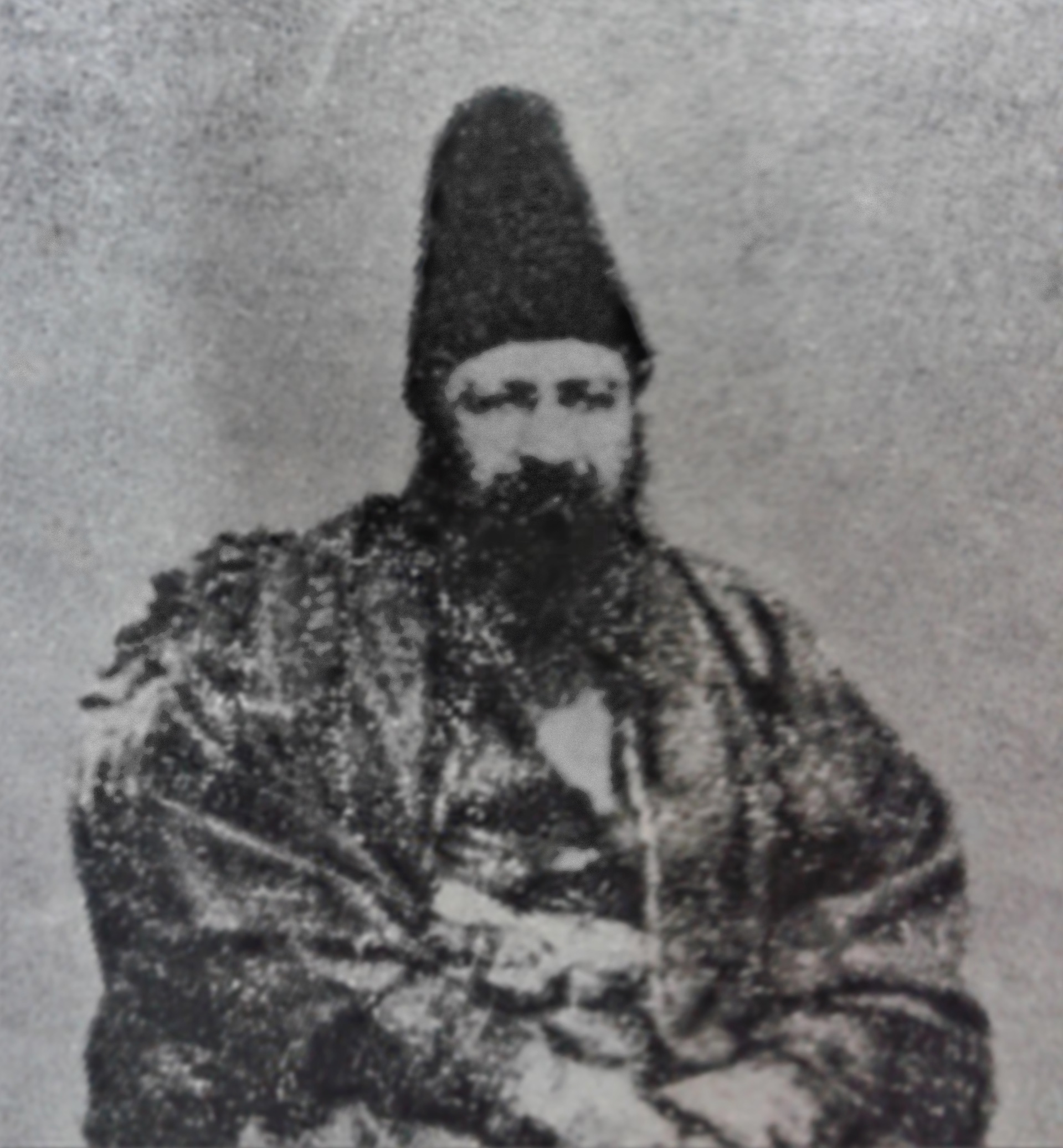 Mirza Ali Qaem Maqam Persian (Iranian) politician, son of Mirza Abolqasem Qaem Maqam Persian Premier